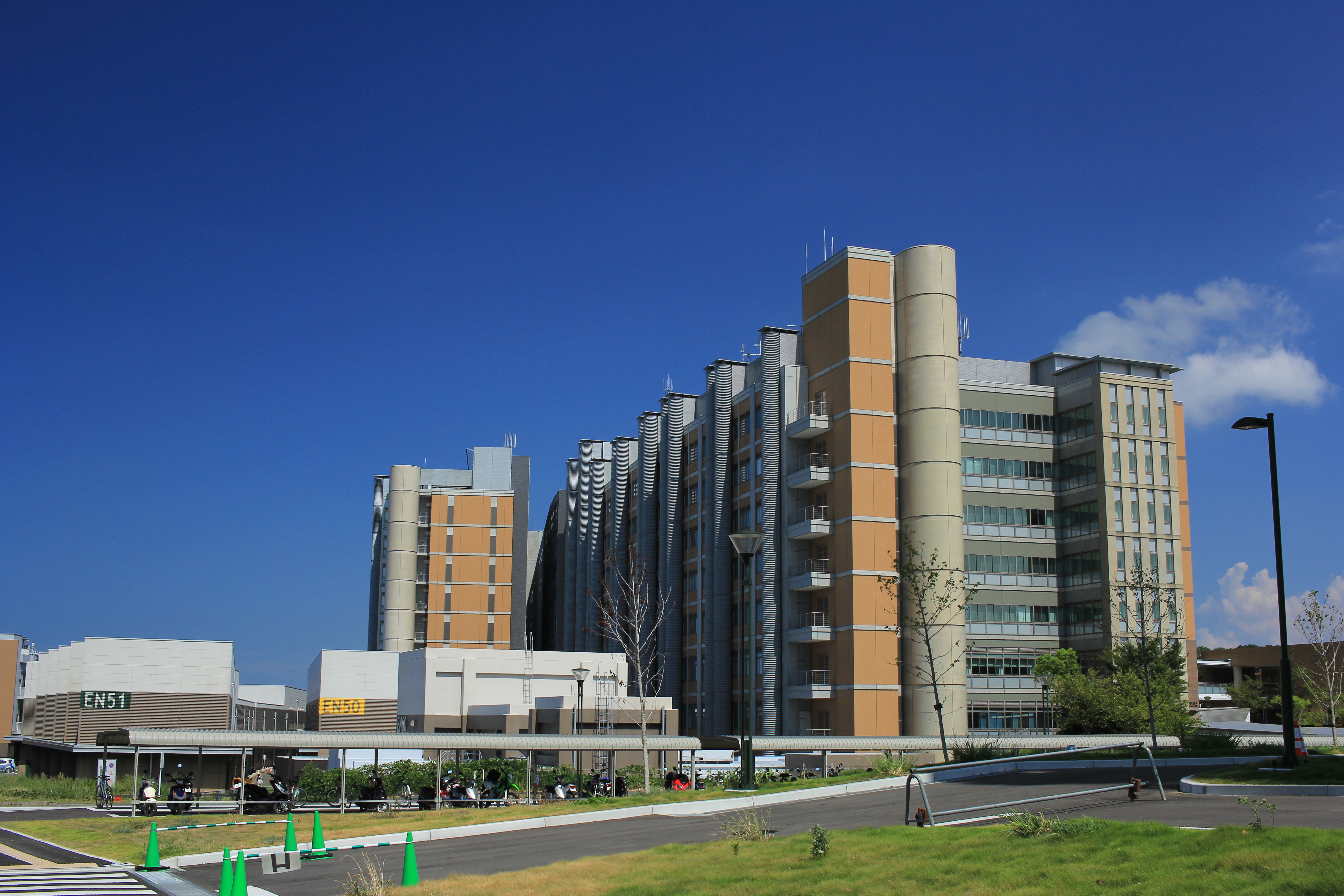 Kyushu University Ito Campus West Zone 4, West Zone 3 and Engineering Department Experimental Facilities Canon EOS 60D